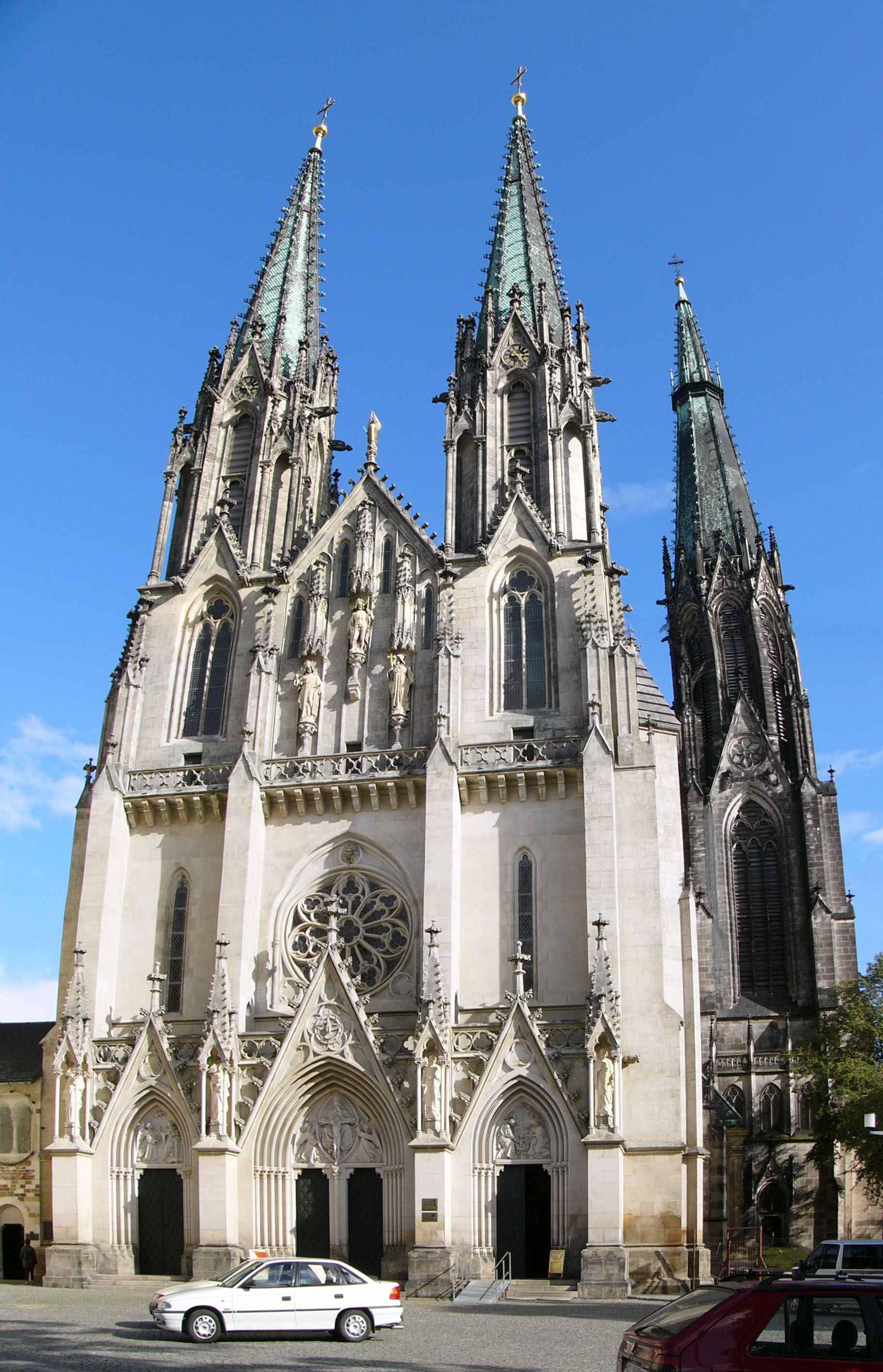 St. Wenceslas cathedral in Olomouc (Czech Republic).